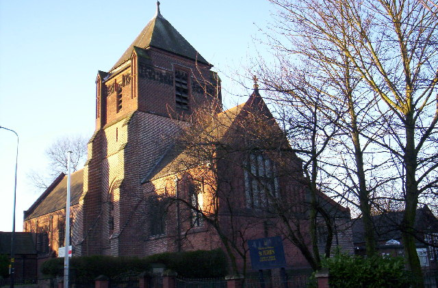 Photograph